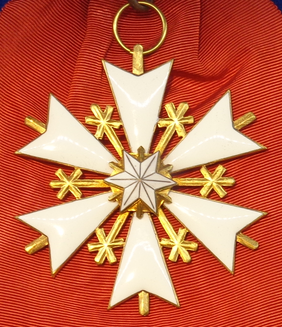 Order of the White Star 1st class, badge obverse, before 1940. Estonia. The exhibition of the Tallinn Museum of Orders of Knighthood, Estonia.